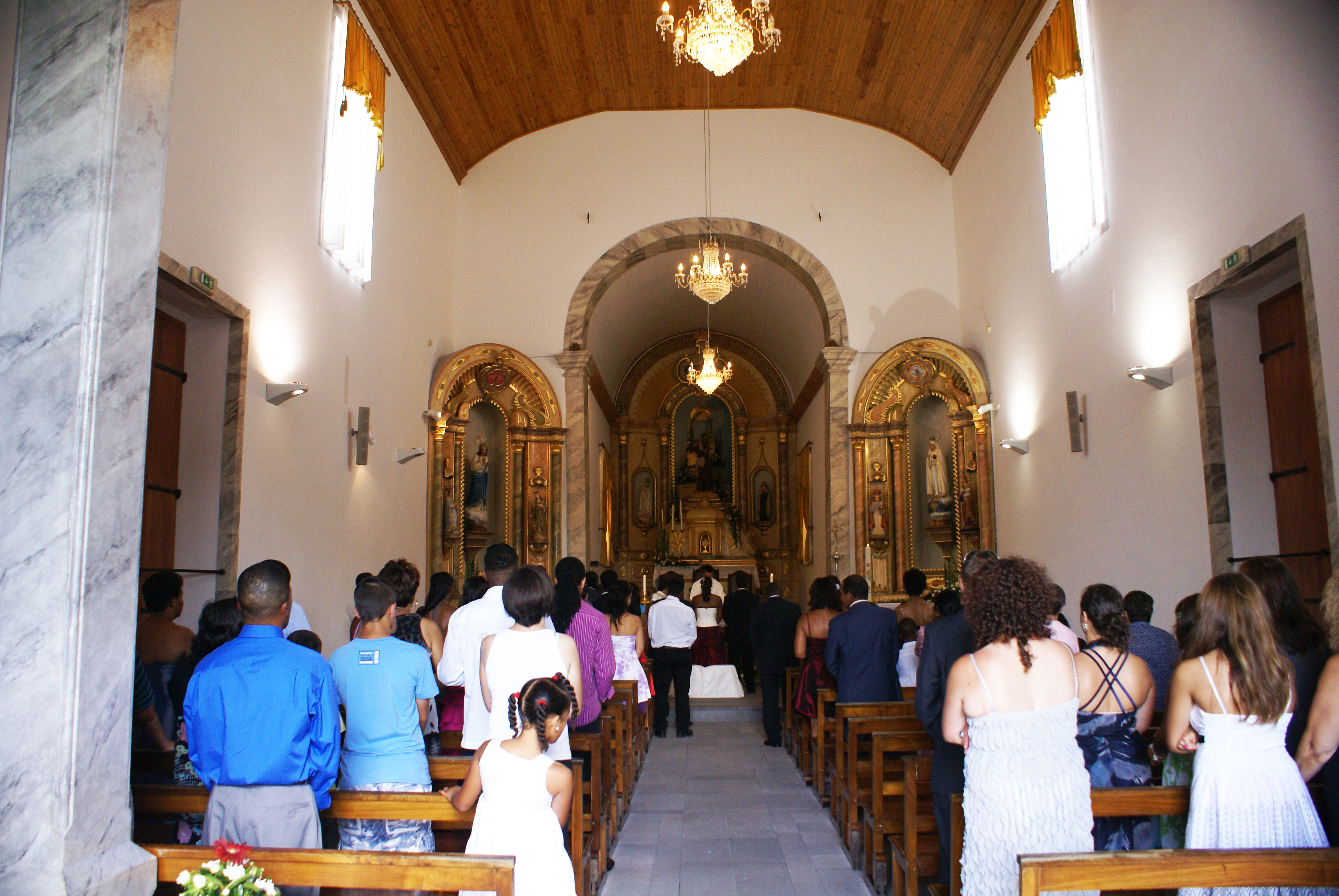 Services in the Chapel of Santo António do Monte, Candelária, Madalena do Pico, Pico (Azores), Portugal